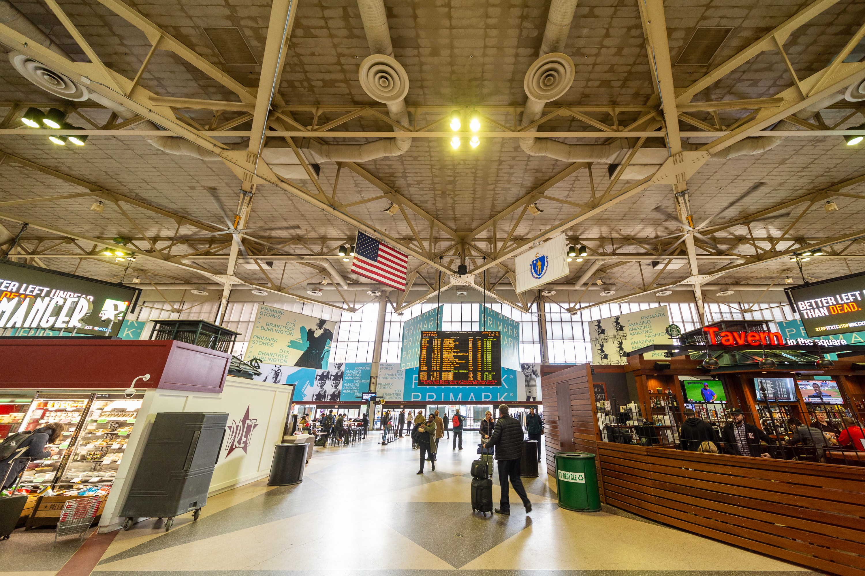 Boston South Station concourse in 2020